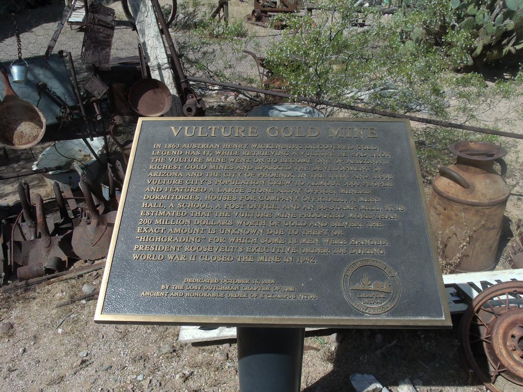 In 1863, after Henry Wickenburg discovered the Vulture Mine, Vulture City a small mining town was established in the area. The town once had a population of 5,000 citizens After the mine closed the city was deserted and became a “ghost town”. The mine and the ghost town are now a tourist attraction in Wickenberg, Arizona. Plaque